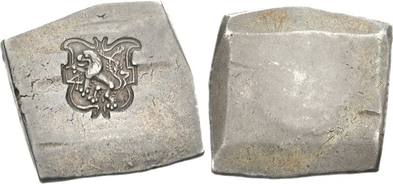 Germany, Jülich-Berg. AR Taler Klippe (29.27 g). Siege issue. Dated (15)43. Lion rampant left with ornate tail; 4 3 across field; all within ornate frame Blank. Brause-Mansfeld pl. XII, 2; Noss 285; Maillet 1. Near EF, toned. Very rare. "After the death in 1538 of Karl von Egmond, Duke of Guelders, his lands passed to his closest family member, the Protestant Wilhelm V, duke of nearby Jülich-Cleves-Berg. Holy Roman Emperor Charles V, who controlled the neighboring duchy of Brabant in the Austrian Netherlands, opposed Wilhelm V’s inheritance of Guelders. Therefore, Charles V’s troops seized the fortresses of Düren, Jülich, and Roermond. When Wilhelm V didn’t receive the help he expected from France and the Schmalkaldic League (a confederation of protestant princes), he was forced to make peace with Charles V. In the Treaty of Venlo of 1543, Wilhelm was stripped of his claim to Guelders and forced to abandon his attempt to bring the Reformation to the duchy. This klippe was issued shortly after Charles V besieged Wilhelm’s fortresses."